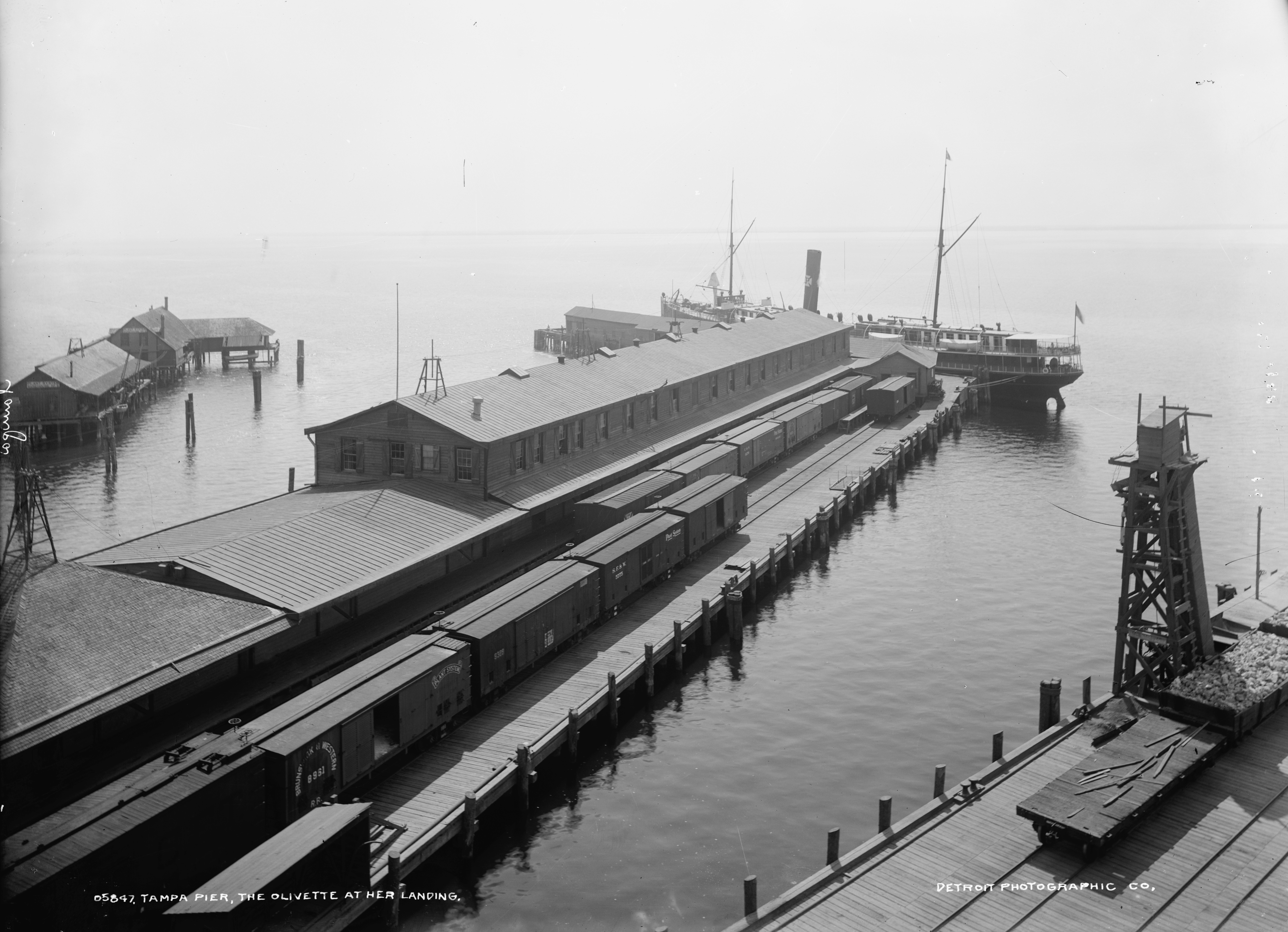 Title: Tampa pier, the Olivette at her landing Related Names: Detroit Publishing Co. , publisher Date Created/Published: [between 1880 and 1901] Medium: 1 negative : glass ; 8 x 10 in. Reproduction Number: LC-D4-5847 (b&w glass neg.) Call Number: LC-D4-5847 [P&P] This image is available from the United States Library of Congress's Prints and Photographs division under the digital ID det1994004516.This tag does not indicate the copyright status of the attached work. A normal copyright tag is still required. See Commons:Licensing for more information.